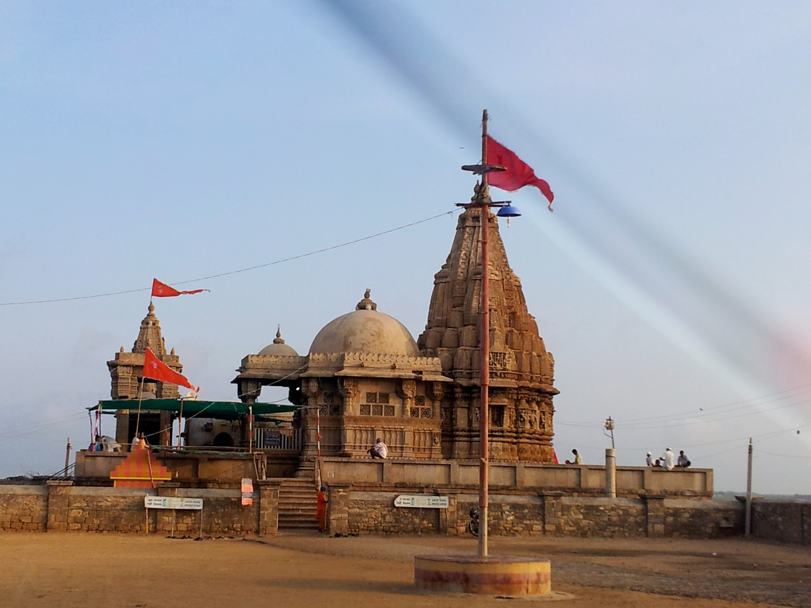 The exterior of the Rukmini Temple is richly carved. Sage Durvasa cursed Rukmini that she would be separated (not divorced) from her beloved husband. Hence Rukmini temple is located 2 kms away from Dwarka's Jagat Mandir.